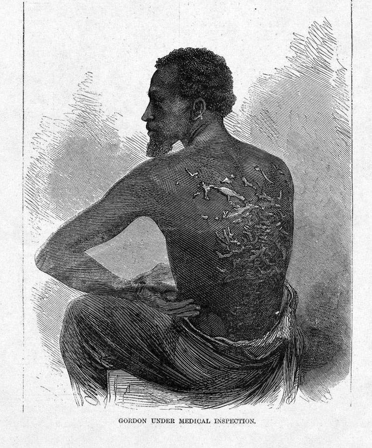 Gordon, slave who escaped to Union lines during the American Civil War, displaying scars from whippings. "Gordon under medical inspection". Shows the scars resulting from severe lashings; this slave was able to escape his master and get across Union lines during the civil war. Note: Compare with Category:Whipped Peter. Illustrator for Harper's Magazine may have used elements of that earlier photo in creating this engraving.